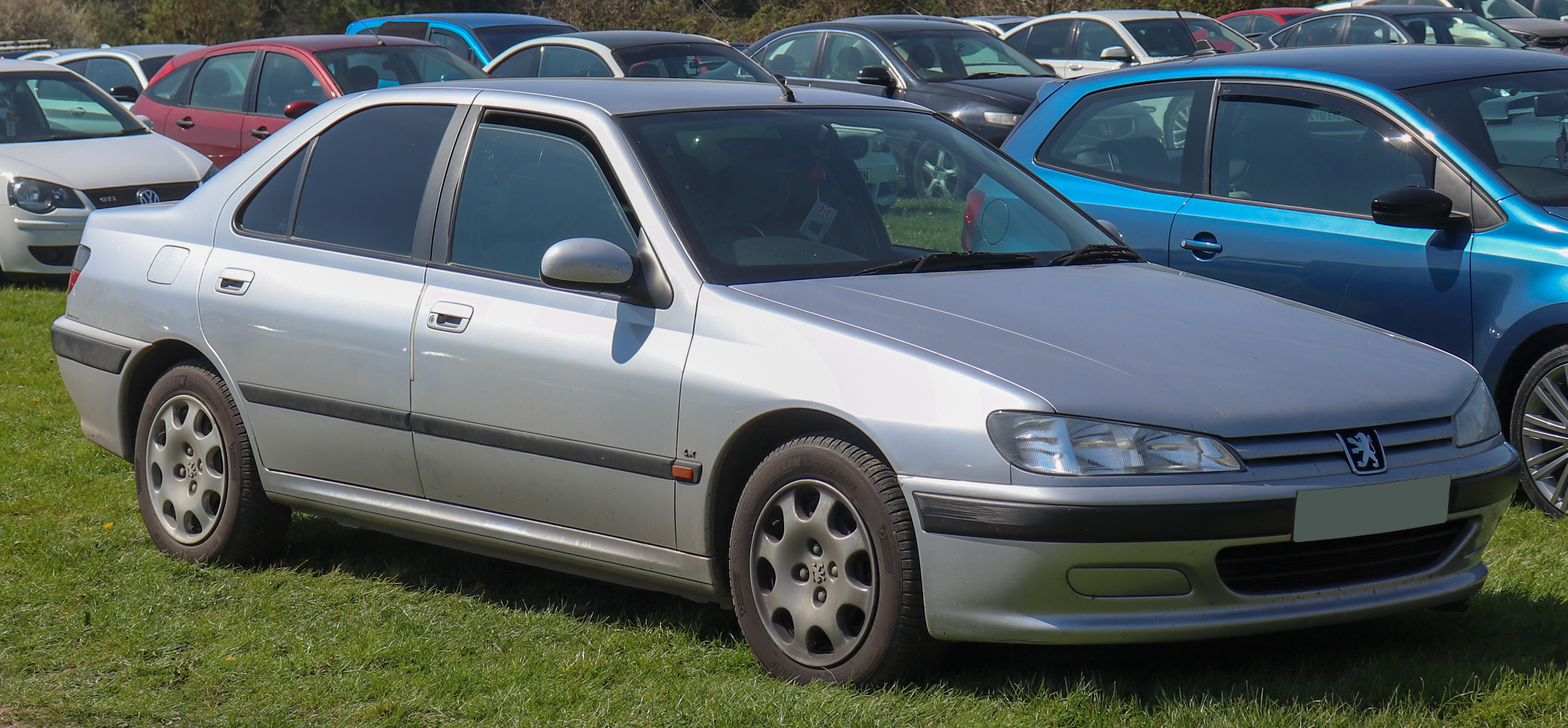 1998 Peugeot 406 LX DT 1.9 Front Taken at NAEC Stoneleigh, Stoneleigh, Coventry